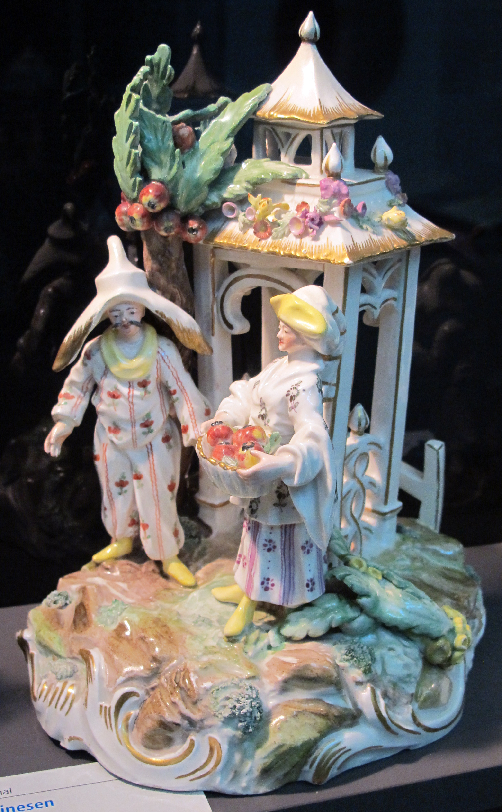 Porcelain in the Historisches Museum Bern